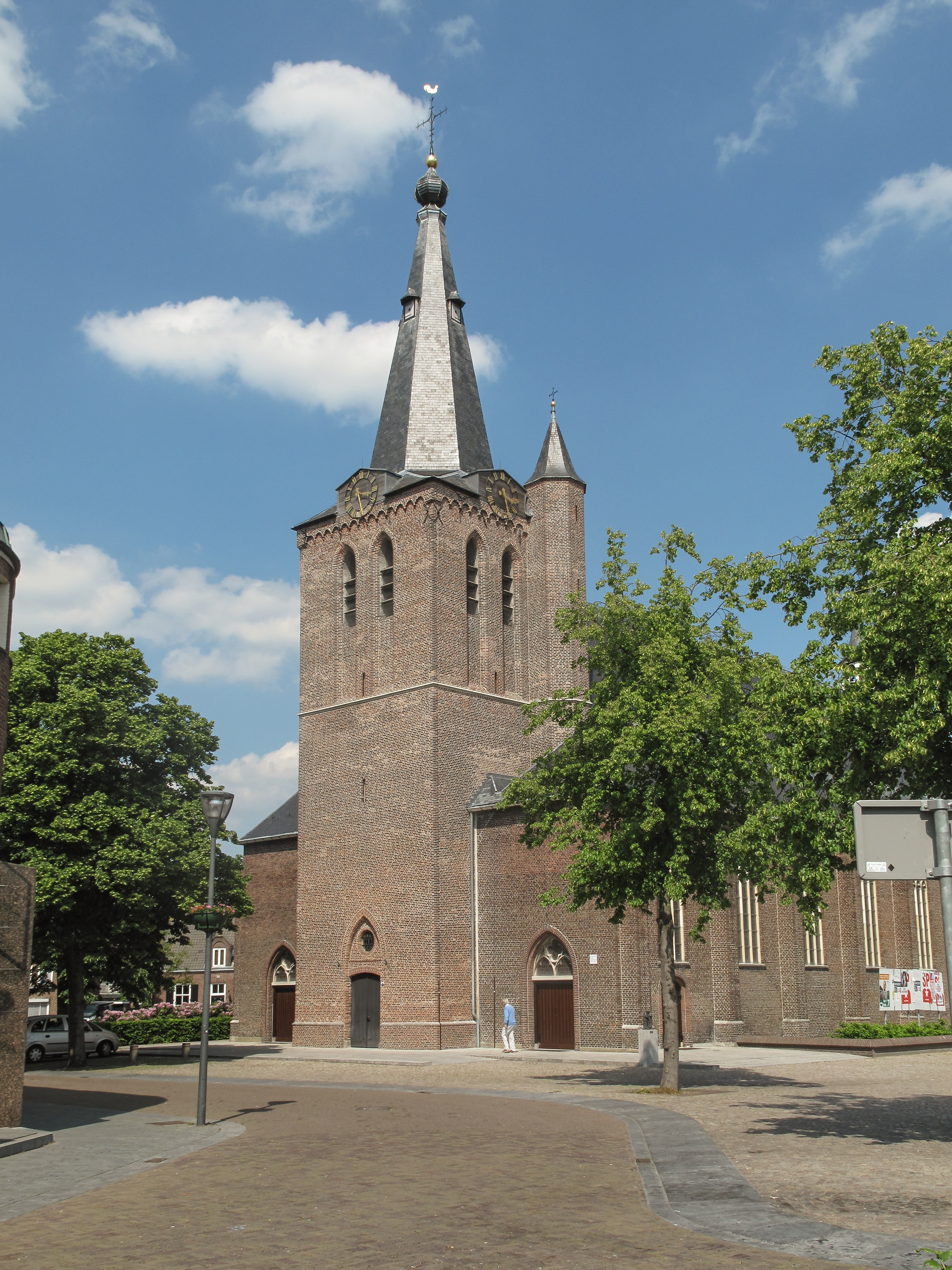 Schijndel, churchtower (de Sint Servatiuskerk)